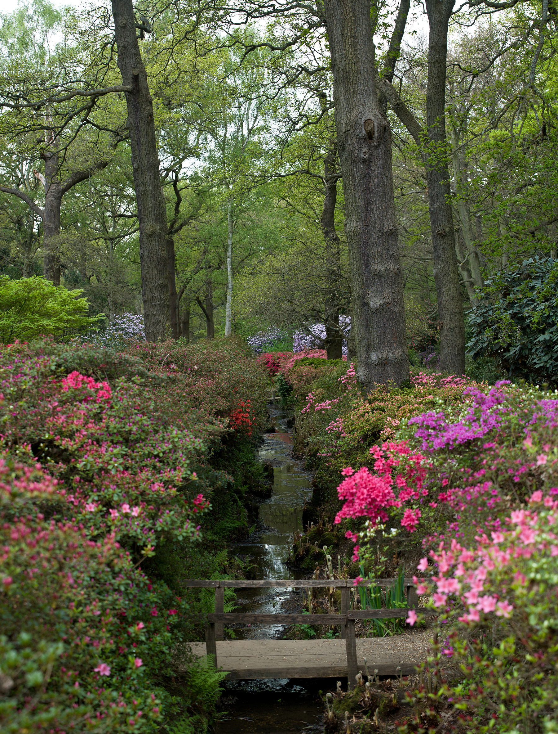 A three segment vertically stitched panorama of Isabella Plantation, an enclosed garden within Richmond Park in London England, taken during the spring flower bloom.